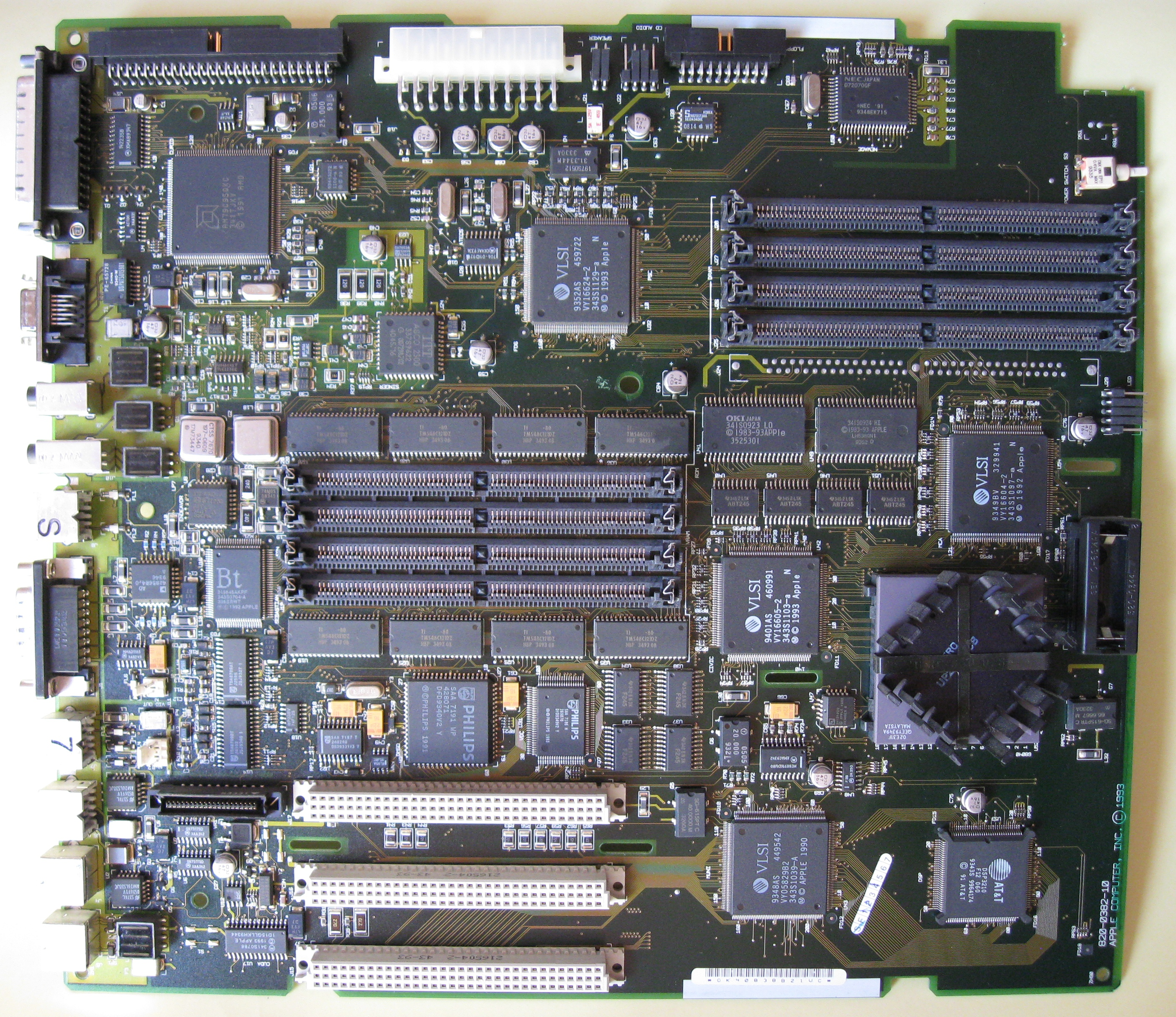 Macintosh Quadra 840AV system board Printed number on board: 820-0382-10 Apple part number: 661-1700